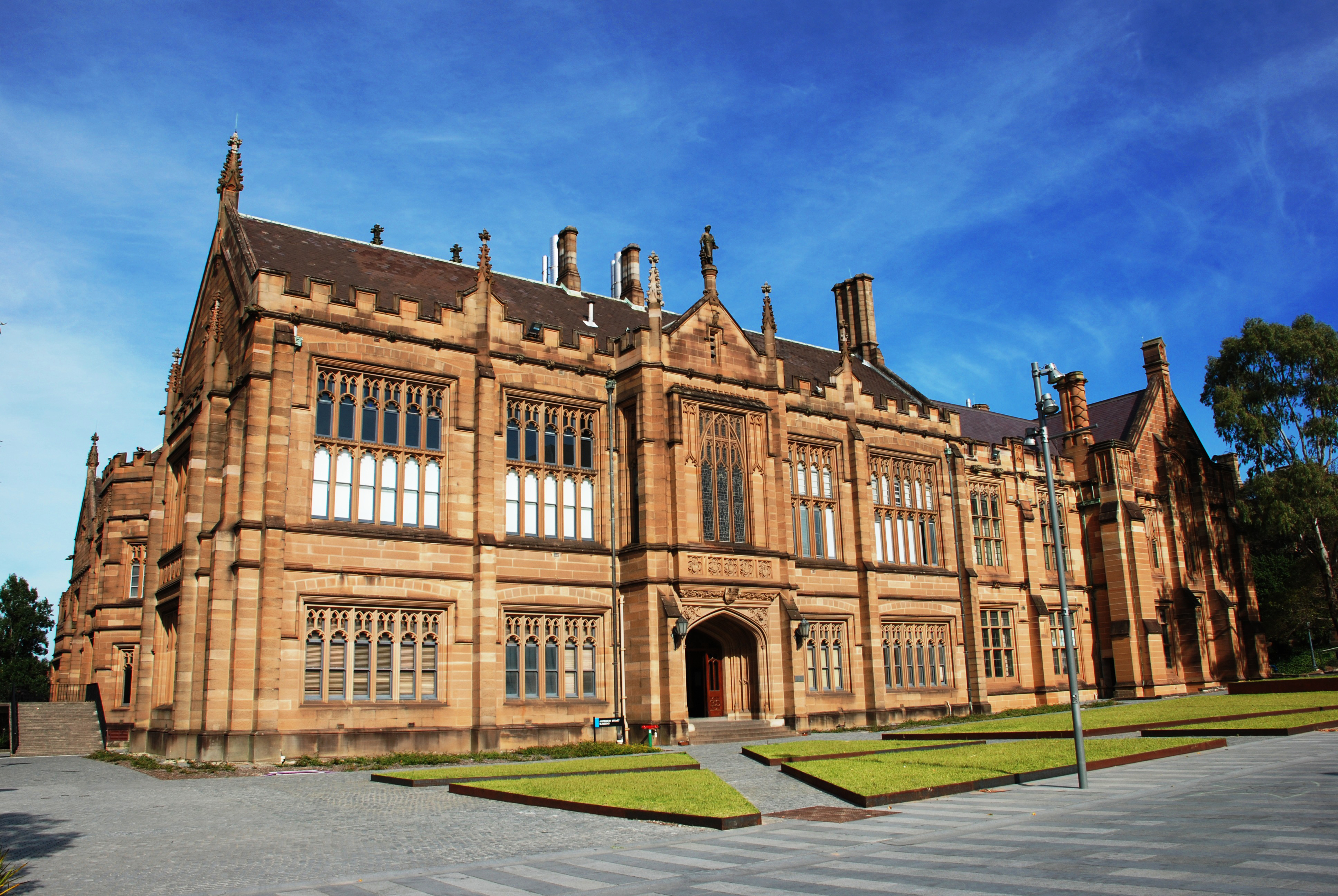 Anderson Stuart Building, housing the Medical School of the University of Sydney. Photo taken by Sumple on 5/01/2009. As a courtesy, and entirely voluntarily, please notify me if you change this image or its description.